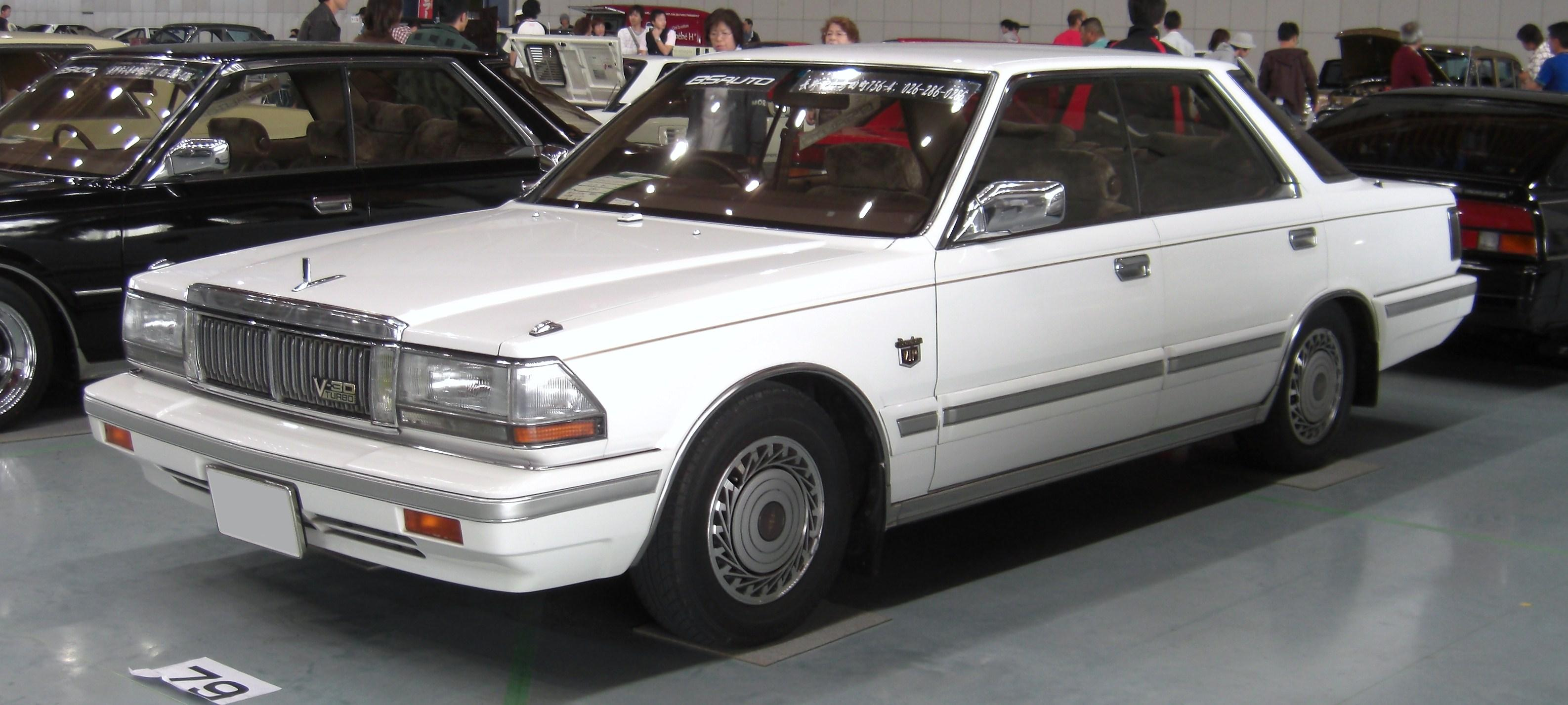 NISSAN Cedric